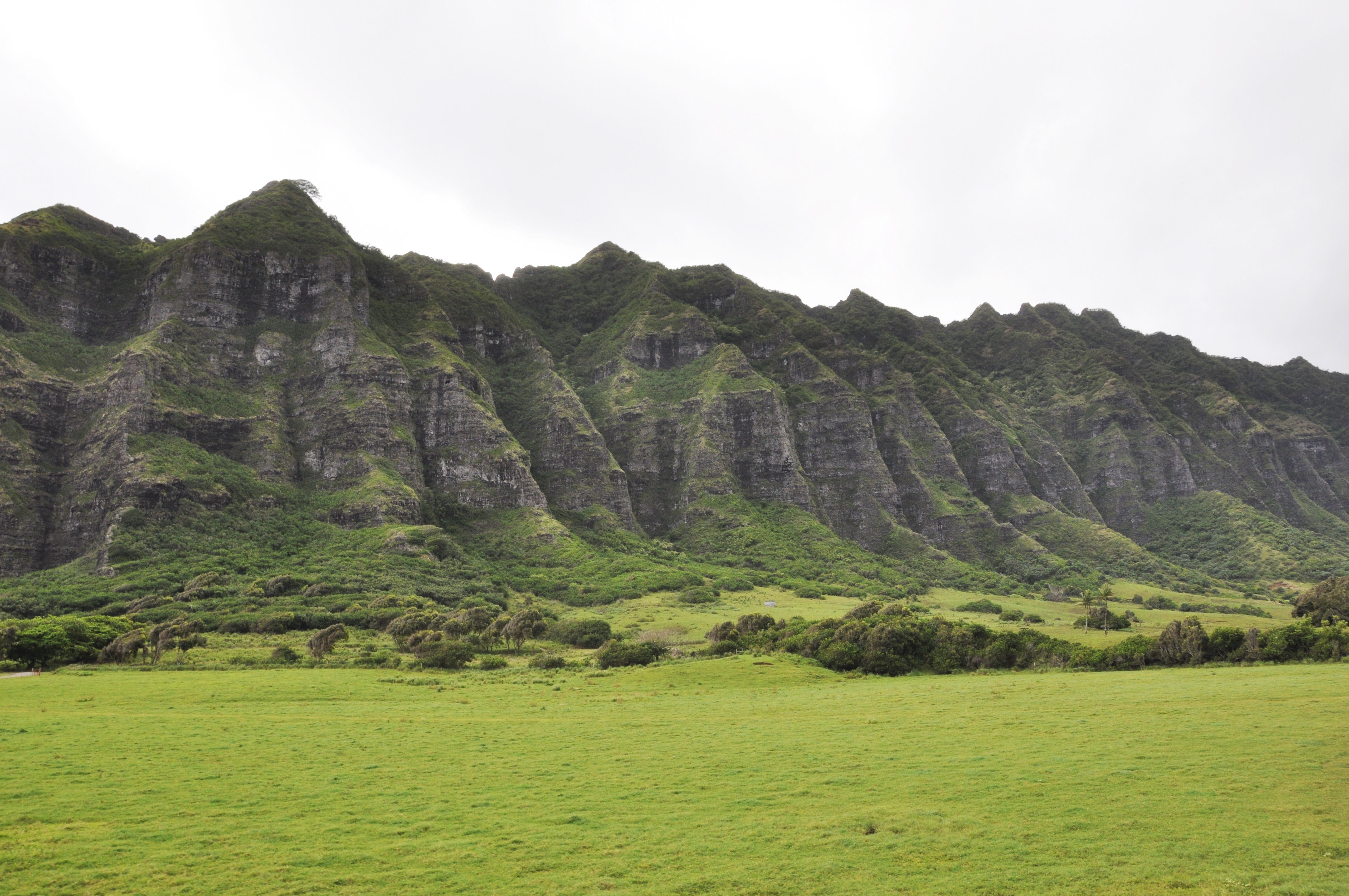 Hawaii Kualoa Ranch